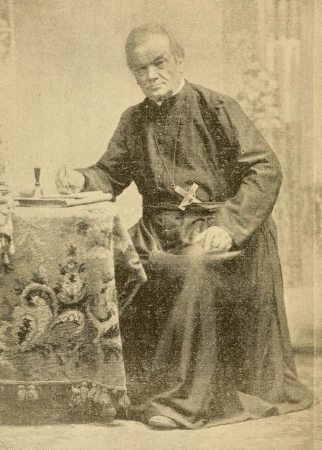 Rev. Pierre Fourier Parisot, O.M.I. This photograph appeared in his 1899 memoir, The Reminiscences of a Texas Missionary (San Antonio : Johnson Bros).